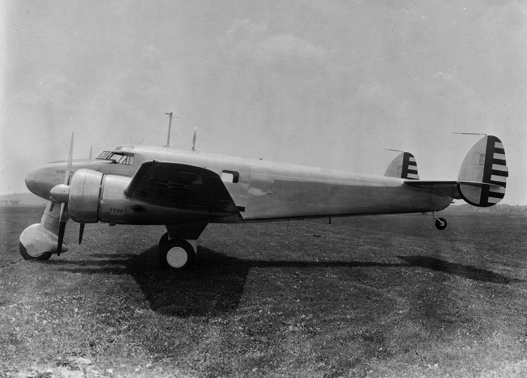 Lockheed C-40B side view. (U.S. Air Force photo)